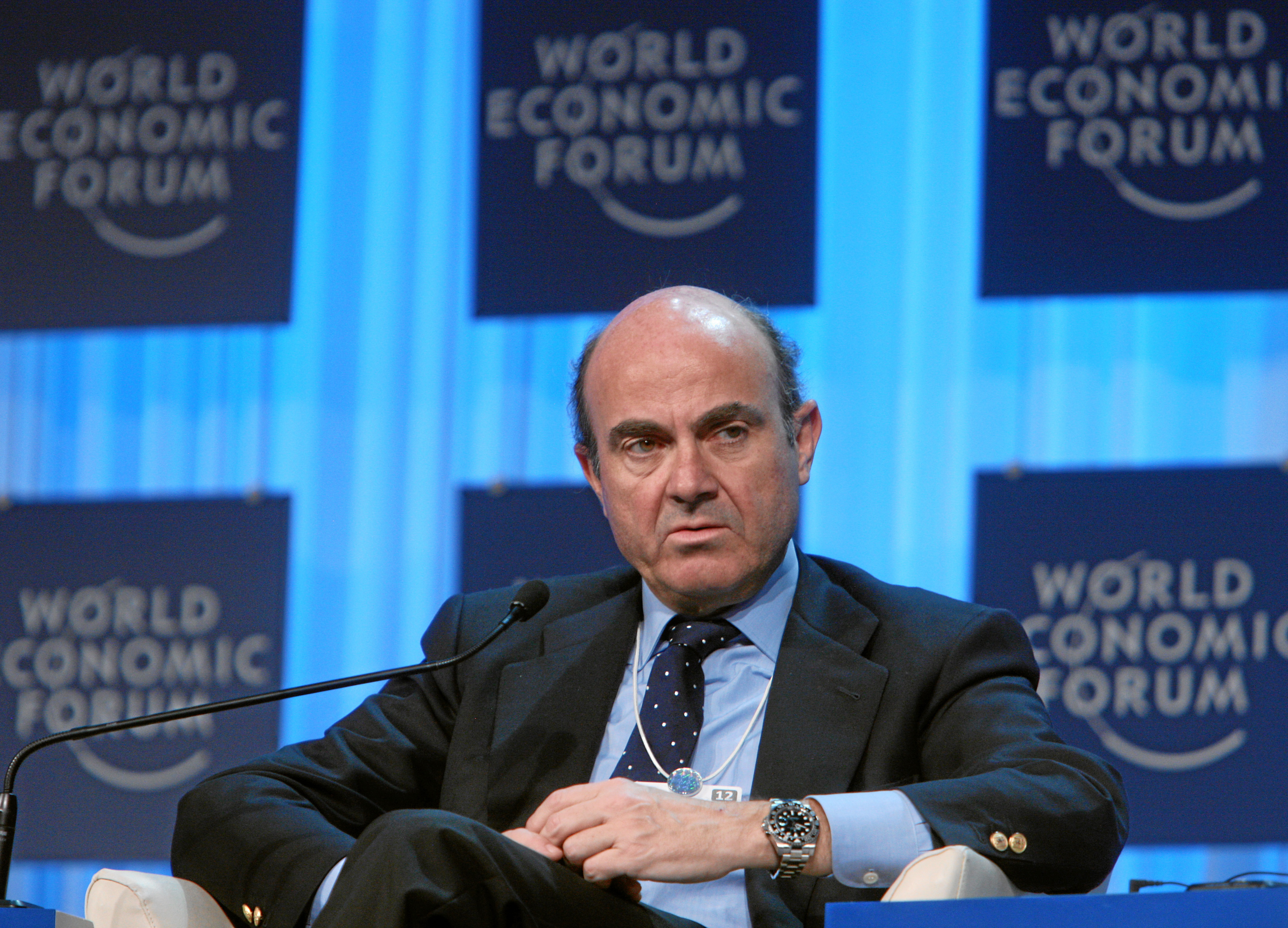 DAVOS/SWITZERLAND, 27JAN12 - Luis de Guindos Jurado, Minister of Economic Affairs and Competitiveness of Spain is captured during the session 'The Future of the Eurozone' at the Annual Meeting 2012 of the World Economic Forum at the congress centre in Davos, Switzerland, January 27, 2012.. . Copyright by World Economic Forum. by Remy Steinegger